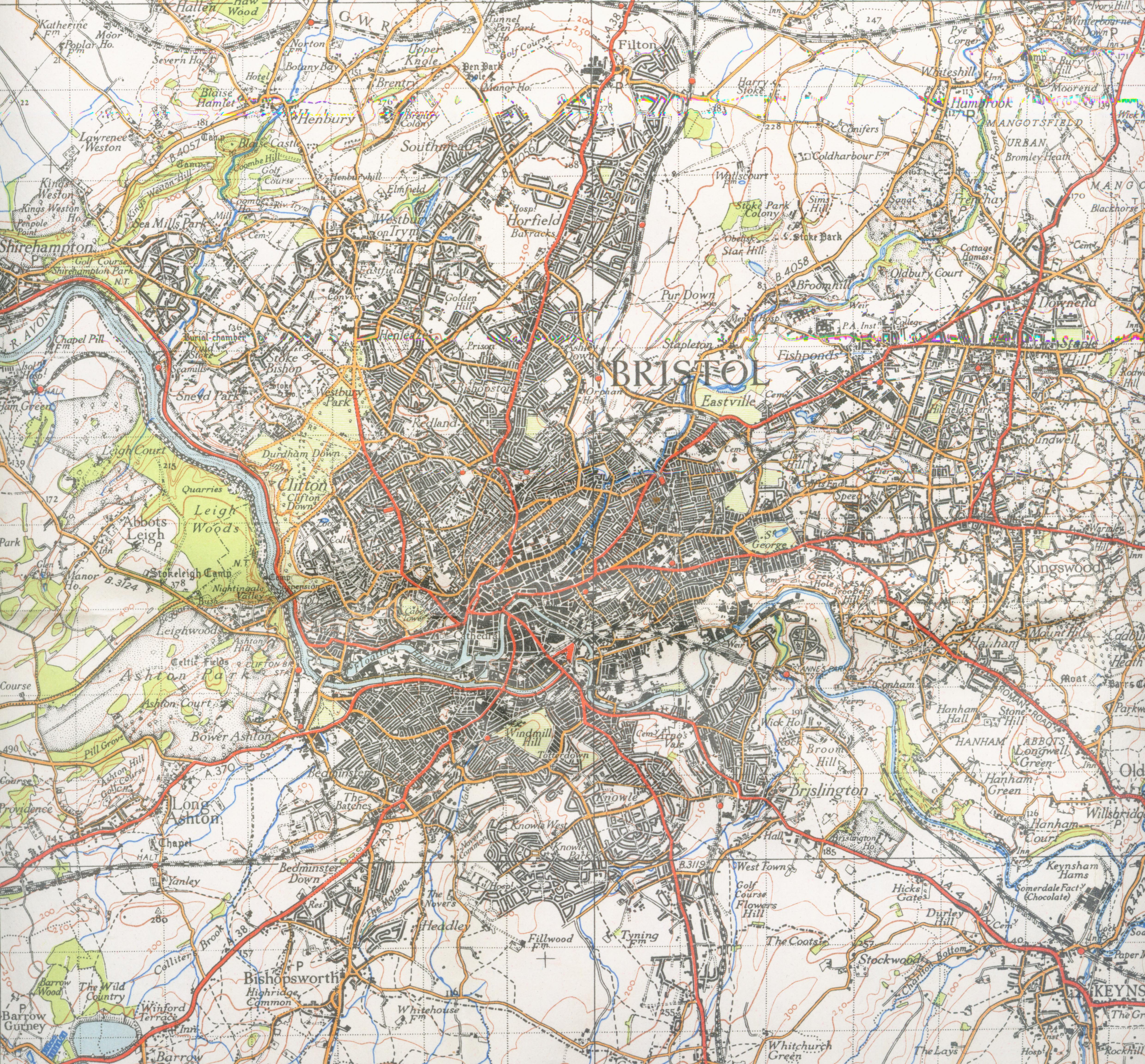 Map of Bristol from 1946. Scale 1 inch to the mile 600DPI Sheet 156